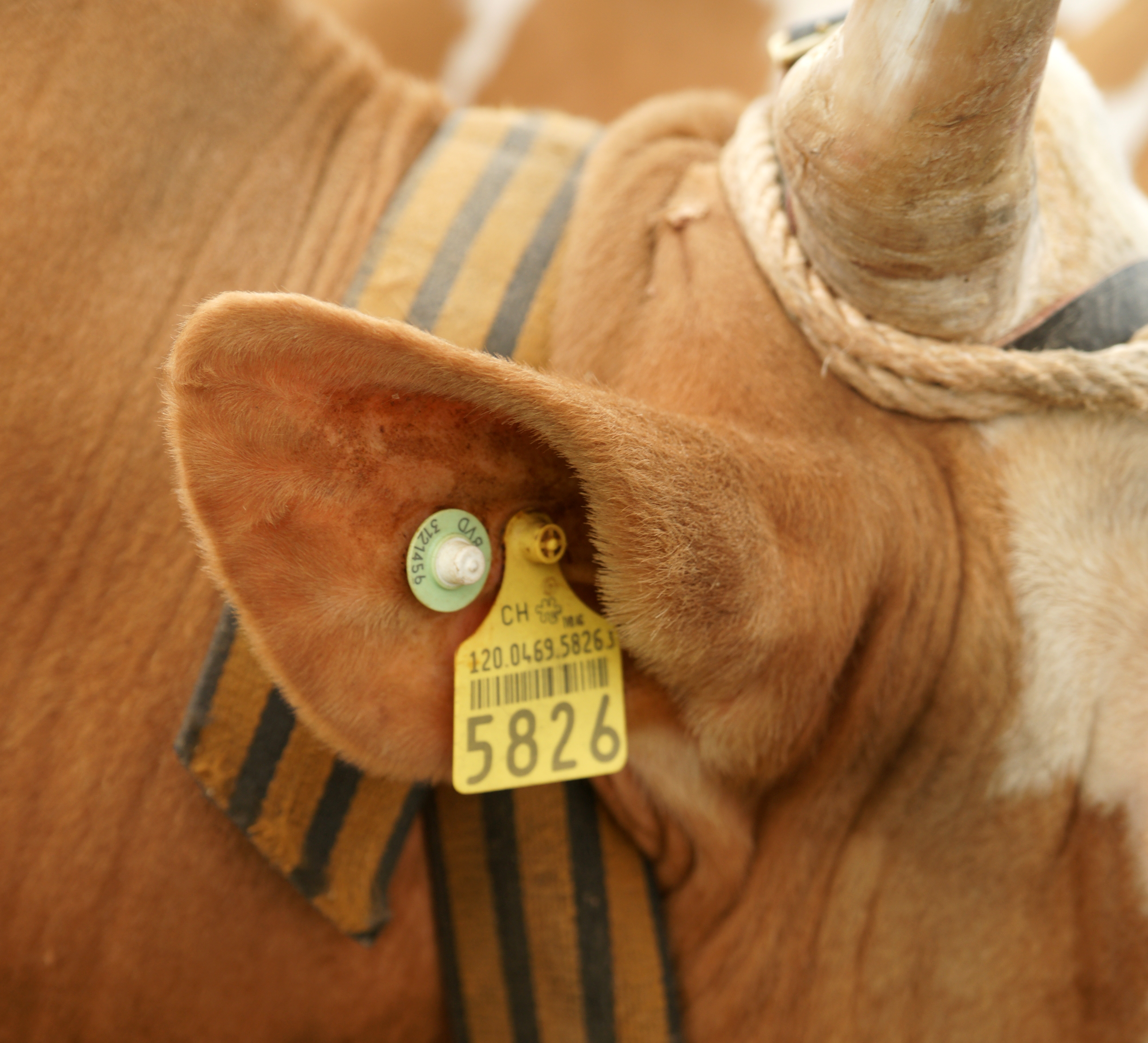 Swiss cow ear with eartags